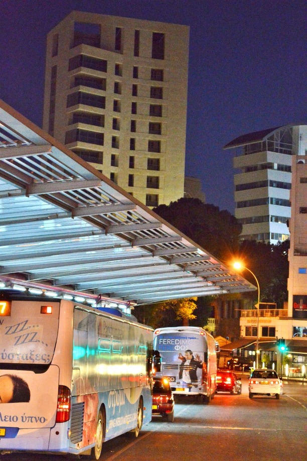 Solomos Bus Station by night Nicosia Republic of Cyprus